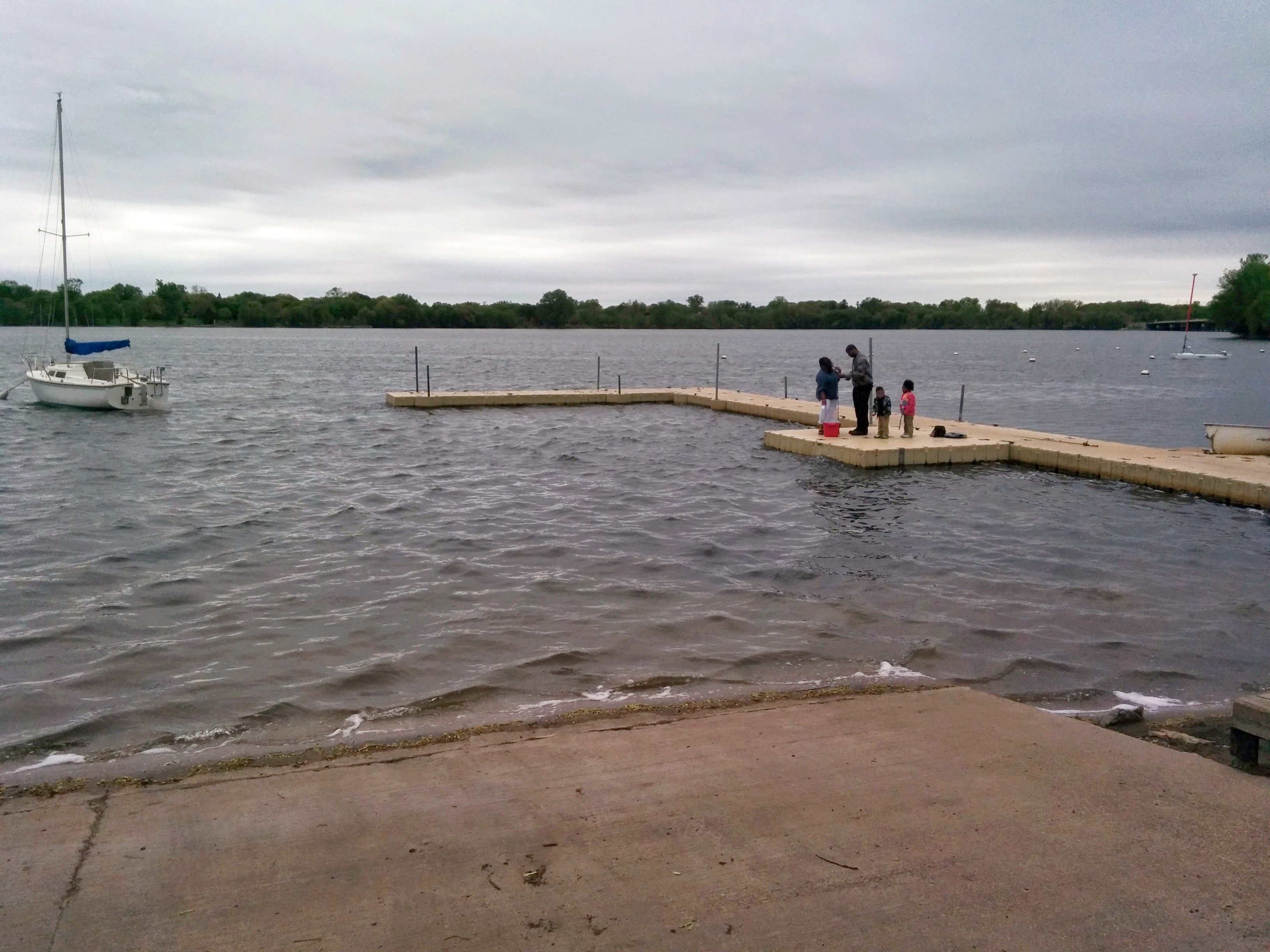 Lake Nokomis, Minneapolis, Minnesota